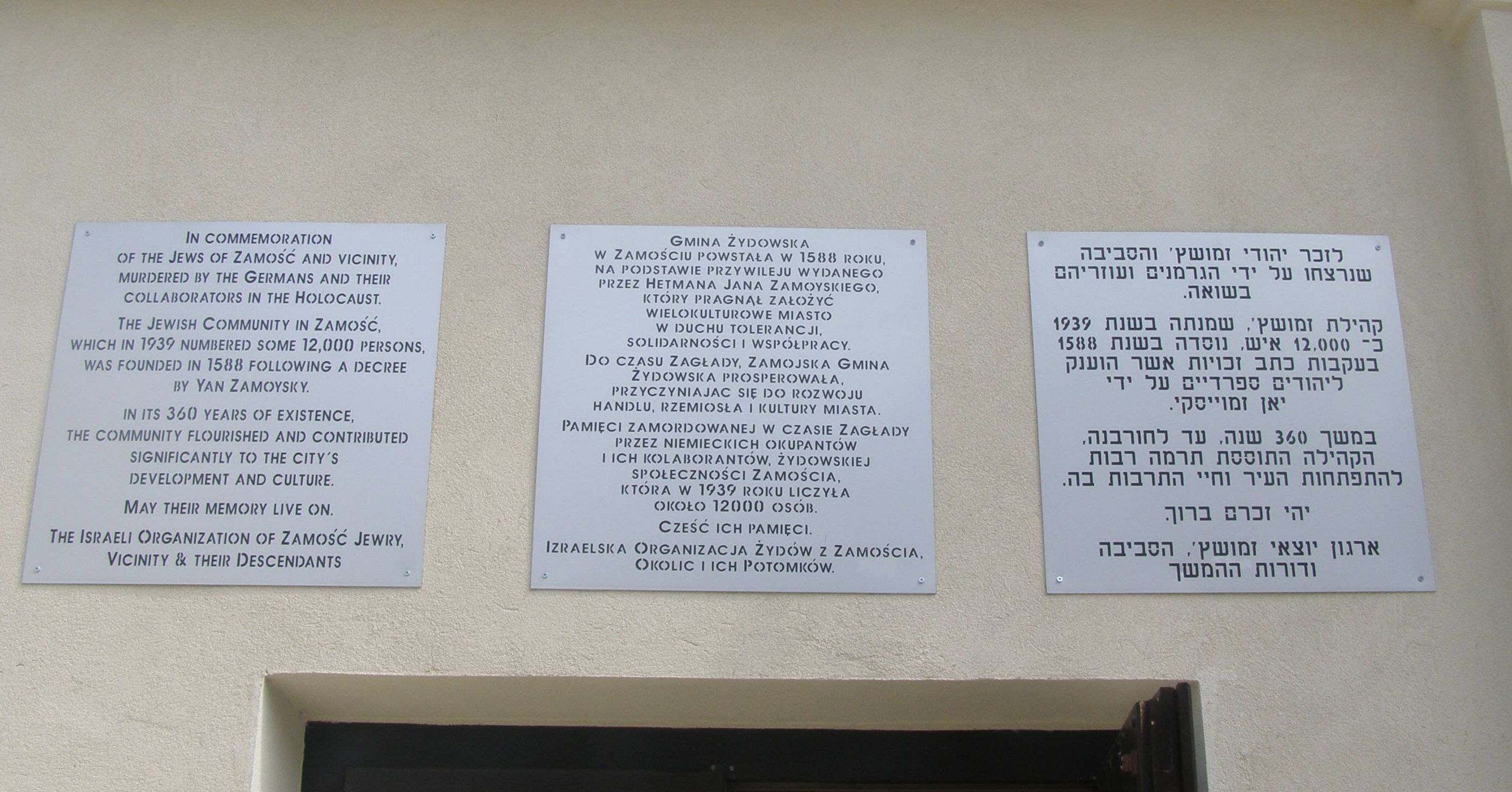 Plaques at the entrance to the synagogue in Zamosc after the renovation